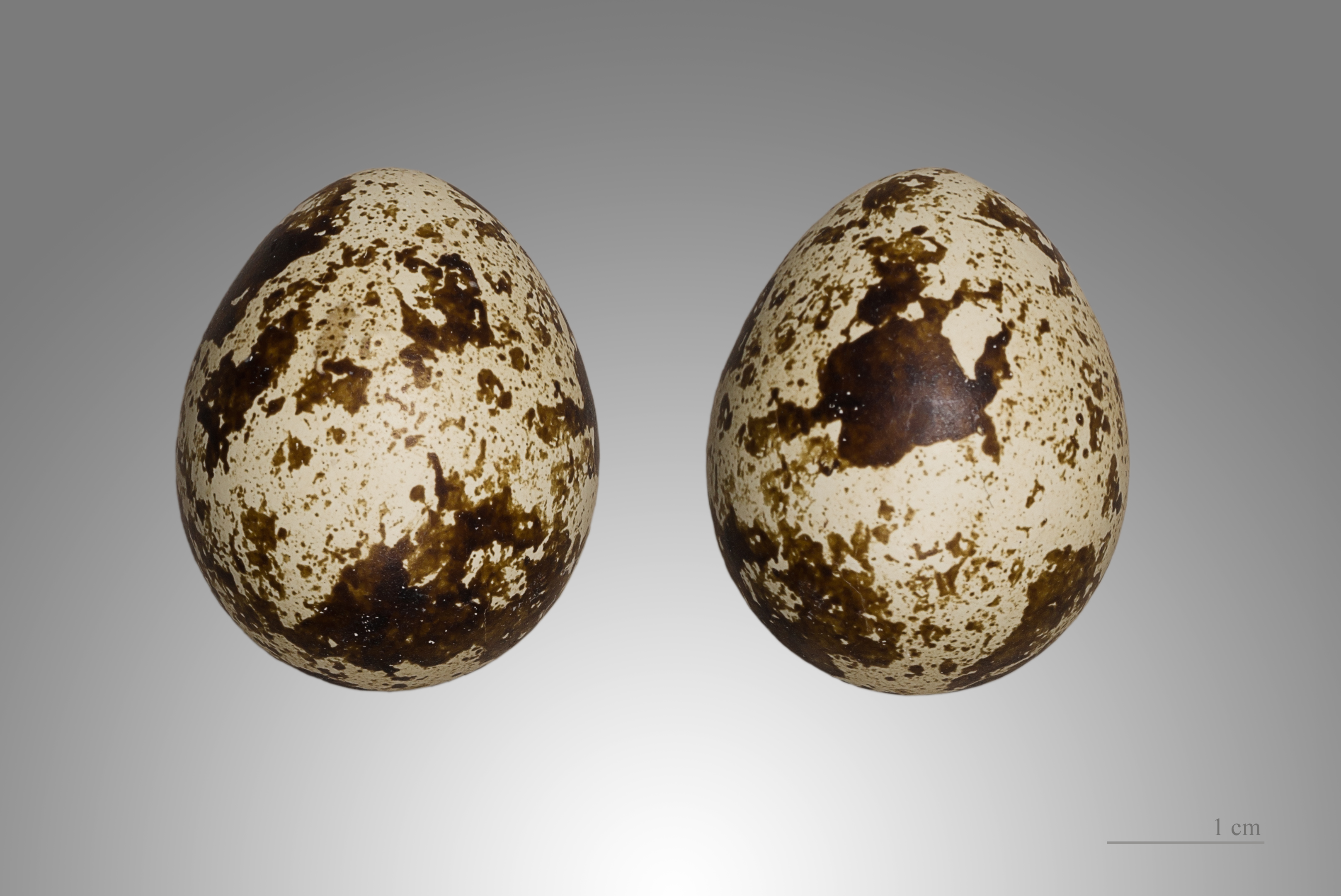 Egg of Common Quail. Two views of same specimen. Collection of Jacques Perrin de Brichambaut.